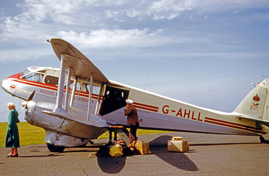 De Havilland DH.89A Dragon Rapide G-AHLL of British European Airways at St Mary's airfield, Scilly Islands, UK, in 1958